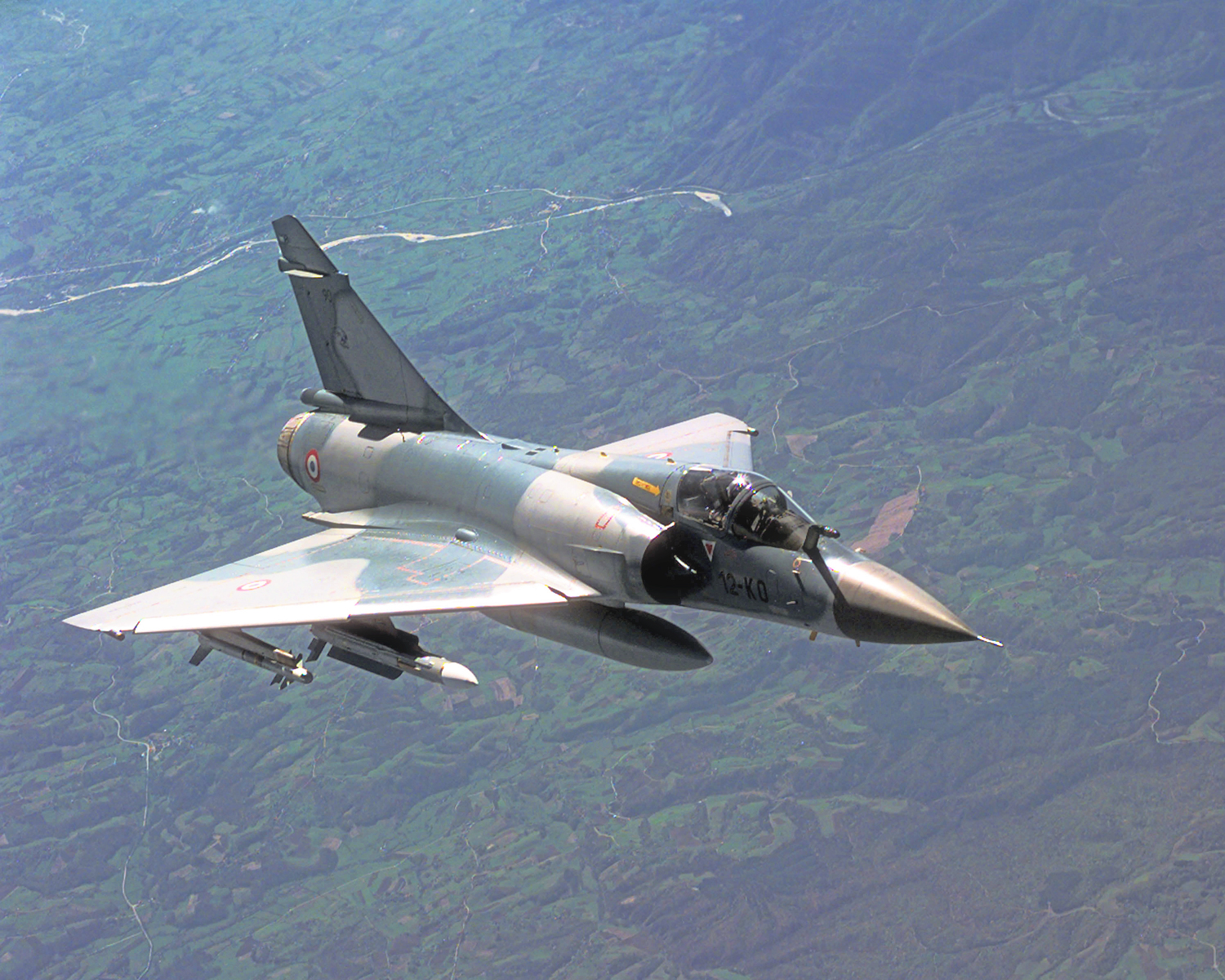 A French Air Force Mirage 2000C drops away from a United States Air Force KC-135R Stratotanker (not shown) after refueling during a Combat Patrol mission while participating in NATO Operation Allied Force. The KC-135R is based at Royal Air Force Mildenhall, England but is being flown by a crew deployed from the 384th Air Refueling Squadron, McConnell Air Force Base, Kansas. Tankers from RAF Mildenhall make-up a large portion of the tanker forces supporting NATO aircraft during NATO Operation Allied Force.